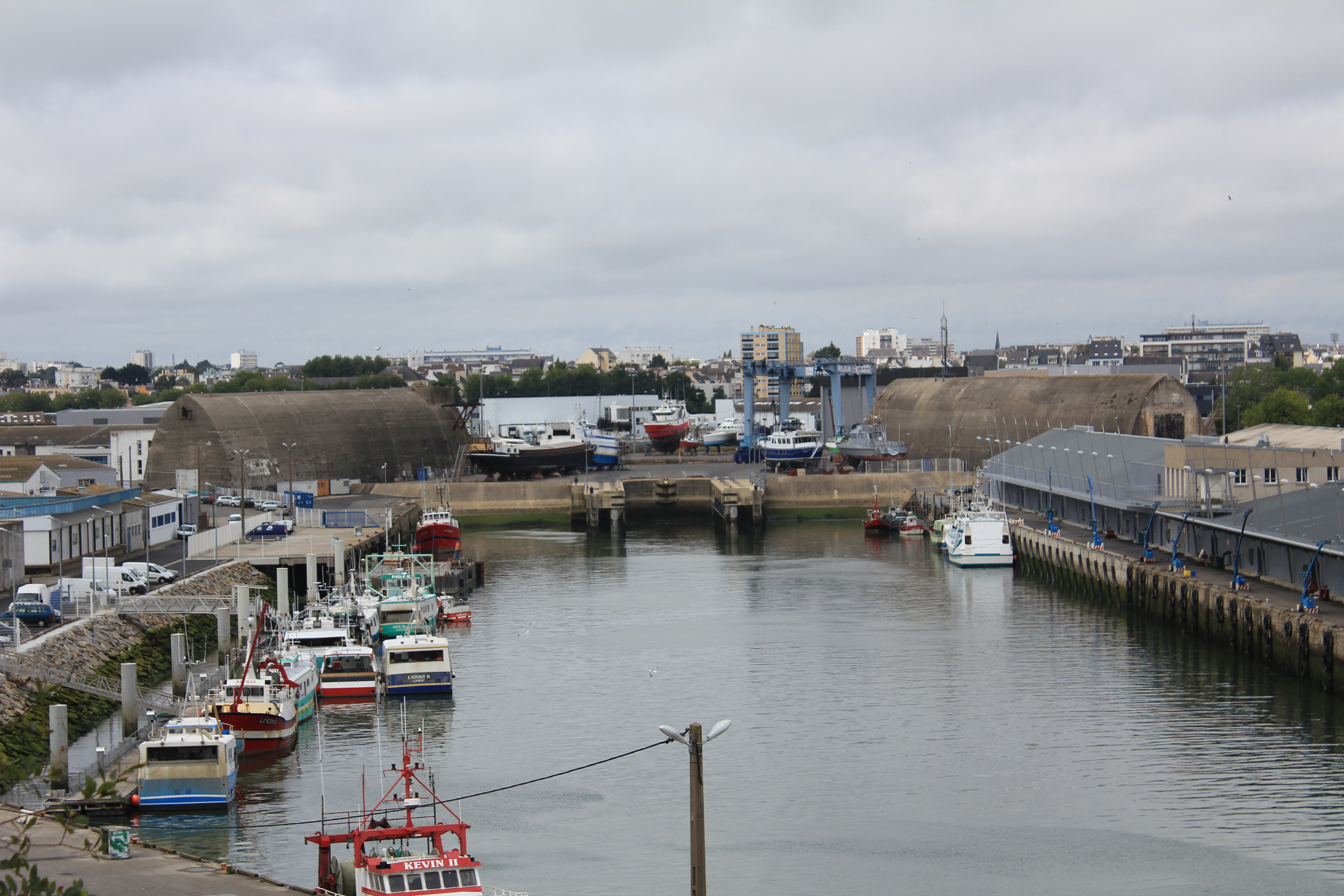 Keroman fishing harbor, with its slipways and Keroman Uboote pens' on the background